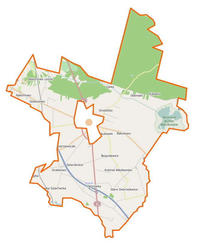 Map of Gmina Kowal, Poland This map of Kowal (gmina wiejska) was created from OpenStreetMap project data, collected by the community. This map may be incomplete, and may contain errors. Don't rely solely on it for navigation. Border coordinates52.617019.0441←↕→19.269352.4470